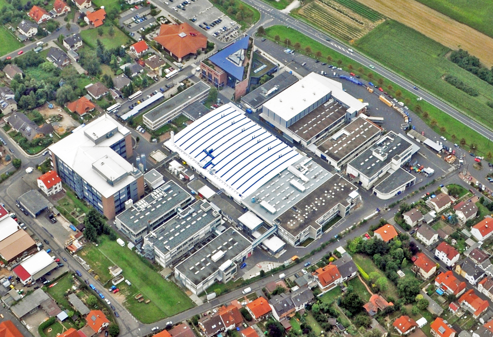 WIKA in Klingenberg am Main, Bavaria, Germany, aerial photograph